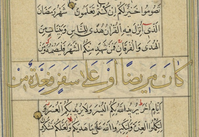 From the Qur'an, verse about the month of Ramadan, second sura, verse 185